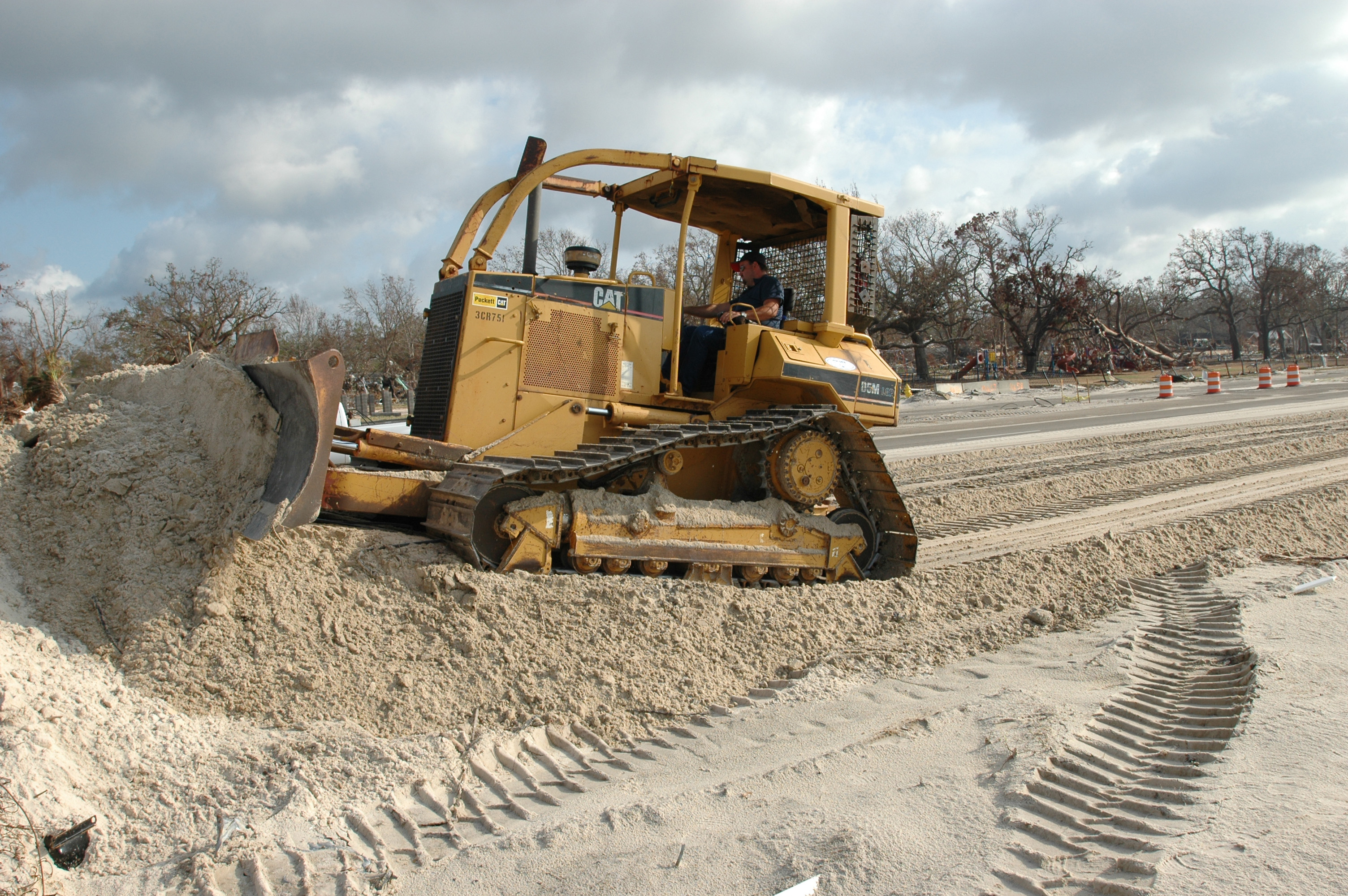 Biloxi, Miss., September 26, 2005 -- Contractors are working on restoring the beachfront in Biloxi, Mississippi. Hurricane Katrina caused extensive damage all along the Mississippi gulf coast. FEMA/Mark Wolfe